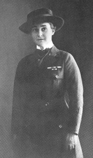 Alice Fitzgerald, a white woman, standing in uniform, in 1920.